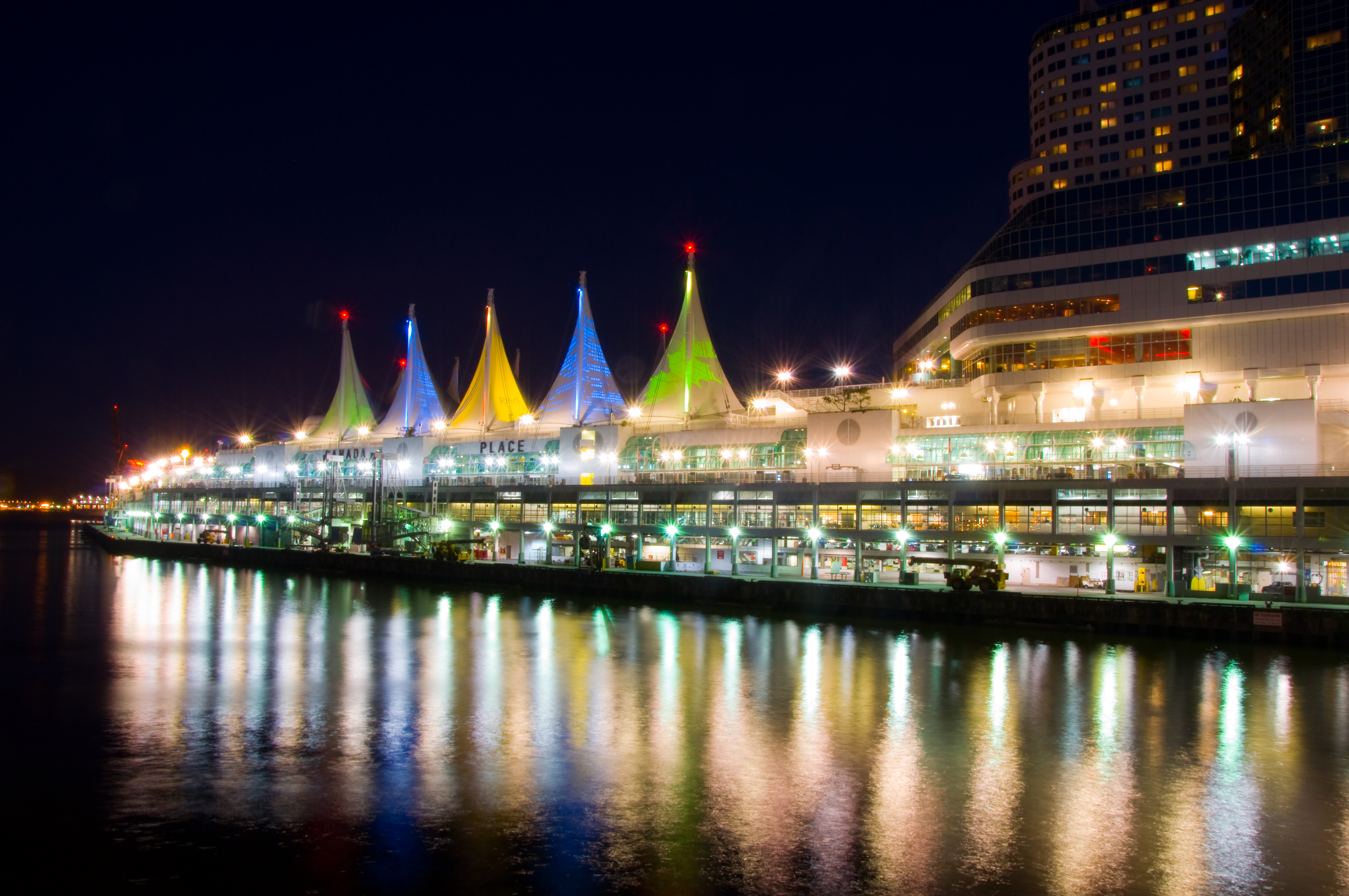 Canada Place at Night